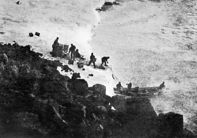 Nimrod-Expedition 1907-1909: Landing stores from the boat at the first landing-place after the ice-foot had broken away